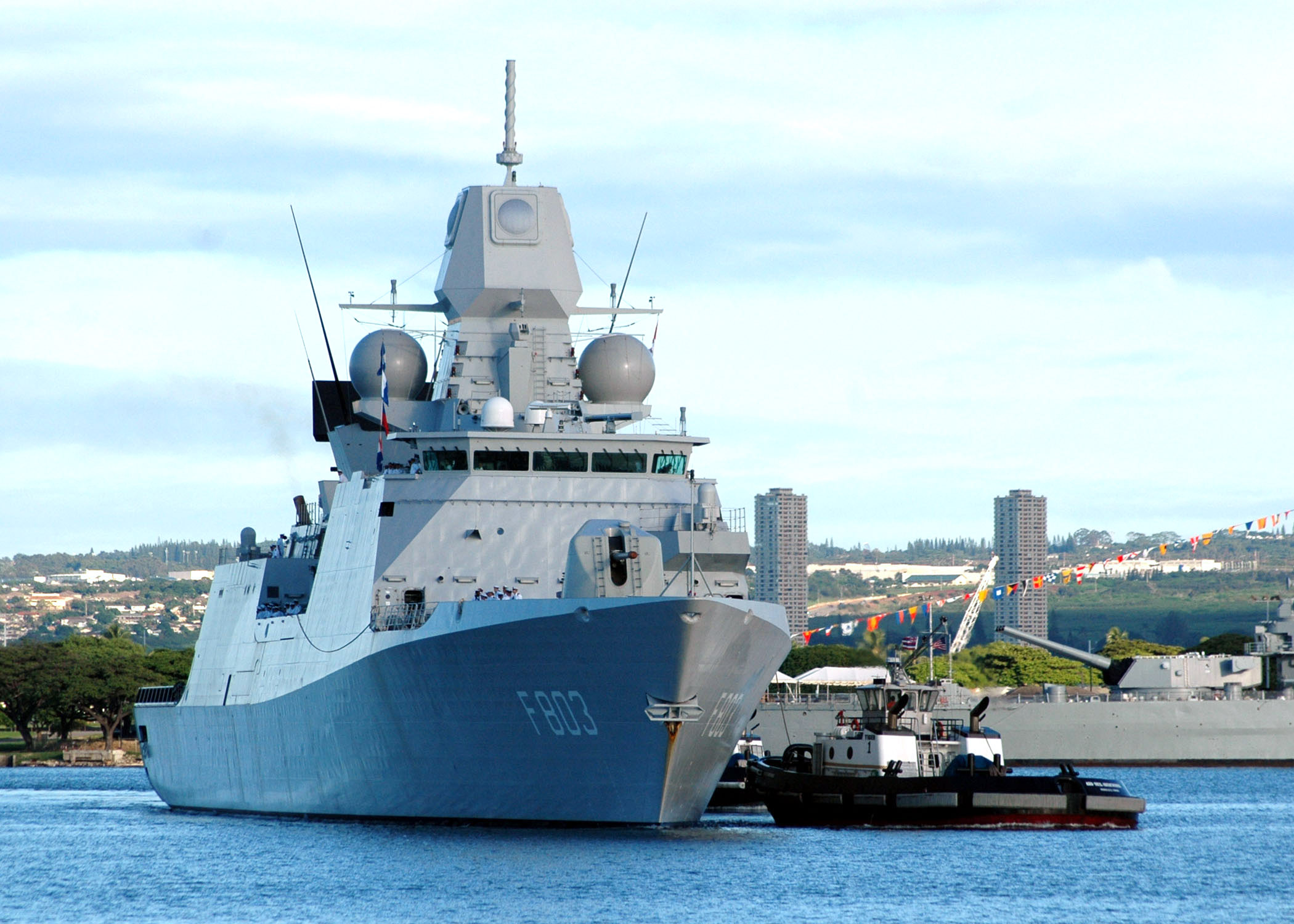 The Royal Netherlands Navy ship, HNLMS Tromp (F803), arrives at Naval Station Pearl Harbor. The Air Defense and Command Frigate has a crew of approximately 170. The crew is scheduled to participate in a wreath laying ceremony at the USS Arizona Memorial and visit various sites throughout Oahu. It is scheduled to sail back to the Netherlands following a circumnavigation around the world. This is the first Dutch navy ship to visit Hawaii in more than 50 years.